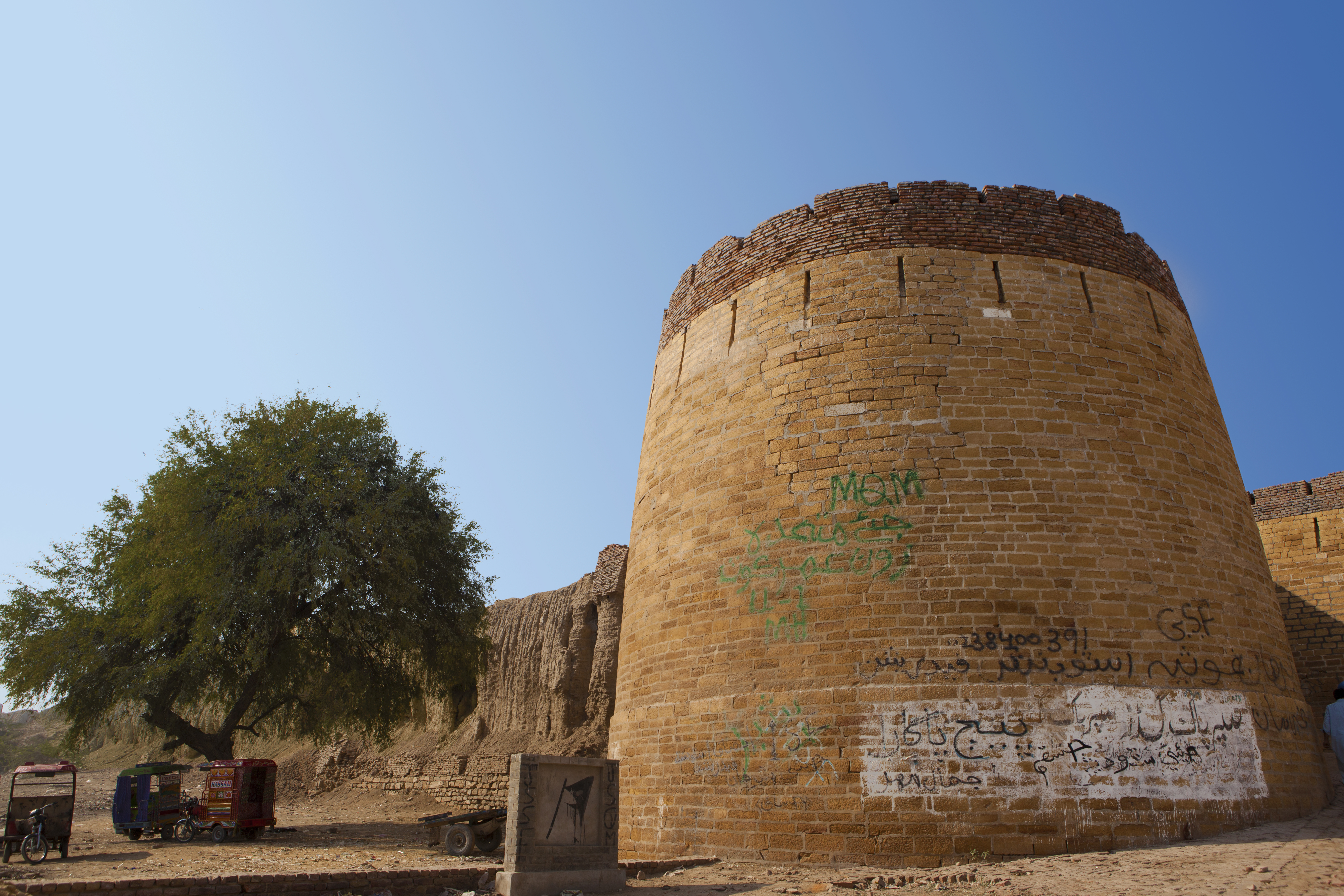 This is a photo of a monument in Pakistan identified as the SD-66